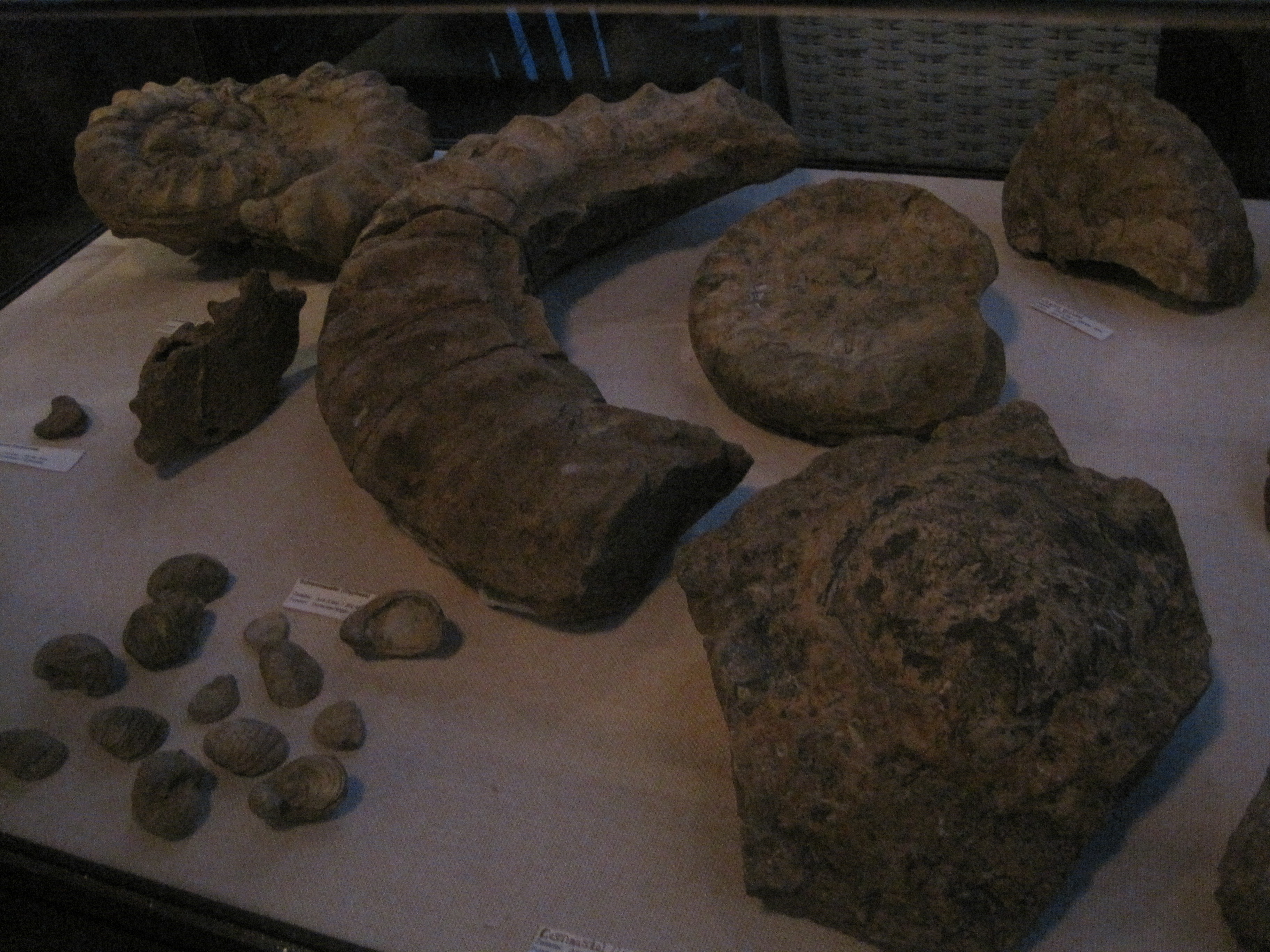 Fossil collection Oberhundem, Kirchhundem, Germany check usage